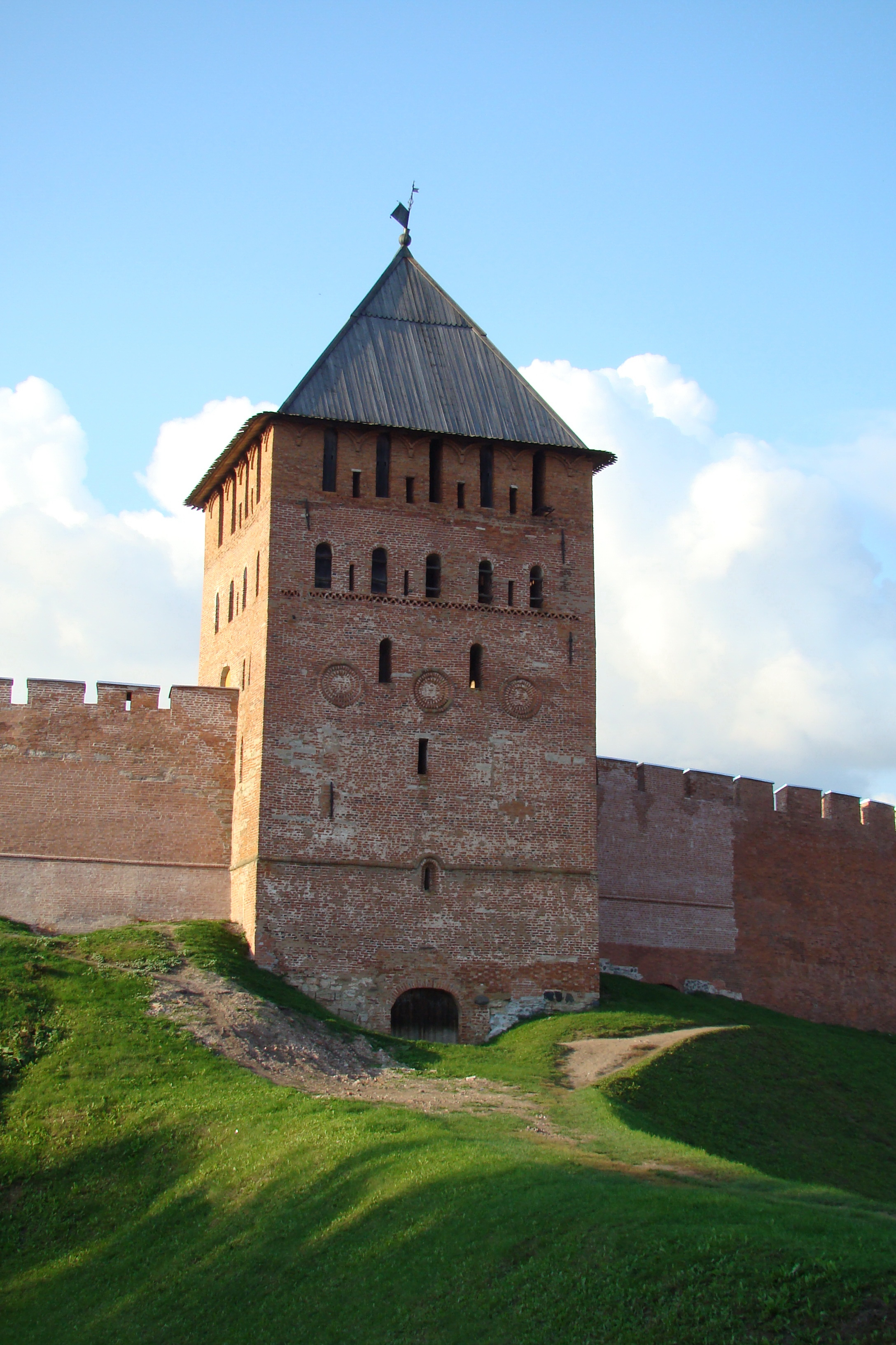 Palace (Dvortsovaja) tower in Detinets (Velikiy Novgorod, Russia, 15th-century)